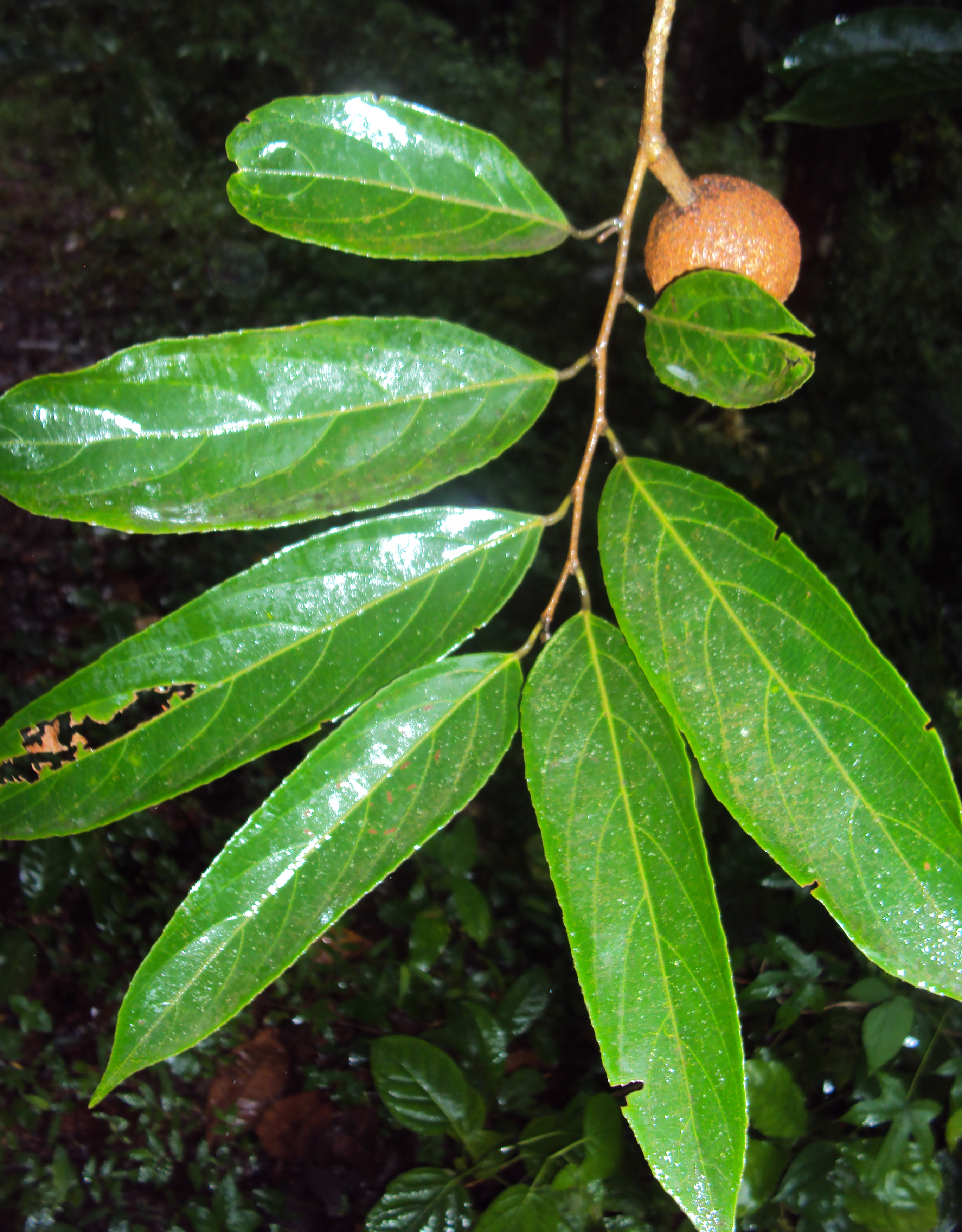 Hydnocarpus pentandra